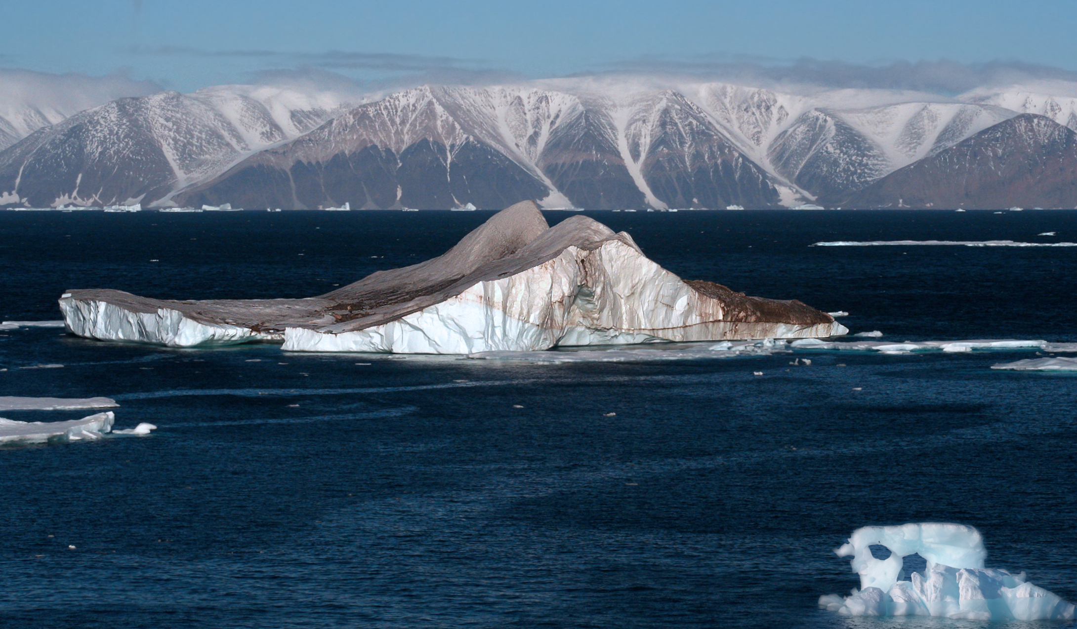 Icebergs in the High Arctic.The image was sent to a glaciologist , Thomas Allen Neumann. It is what he wrote about the coloration of the iceberg: It's too red to be oxidation (like blood falls in Taylor Valley).The debris loading isn't particularly extensive (the apparent slip plane is interesting, or perhaps a former water channel), but the color is usual. Red algae would be a good guess.Two colleagues have also seen your photo and suggested the majority of the debris was from, ah, biological activity. Specifically, they suggested the reddish appearance may be due to walrus excrement - another example is here ([1]). That would explain the color, but perhaps not the discoloration along the band through the ice berg. The part of his email to me was added with his permission.